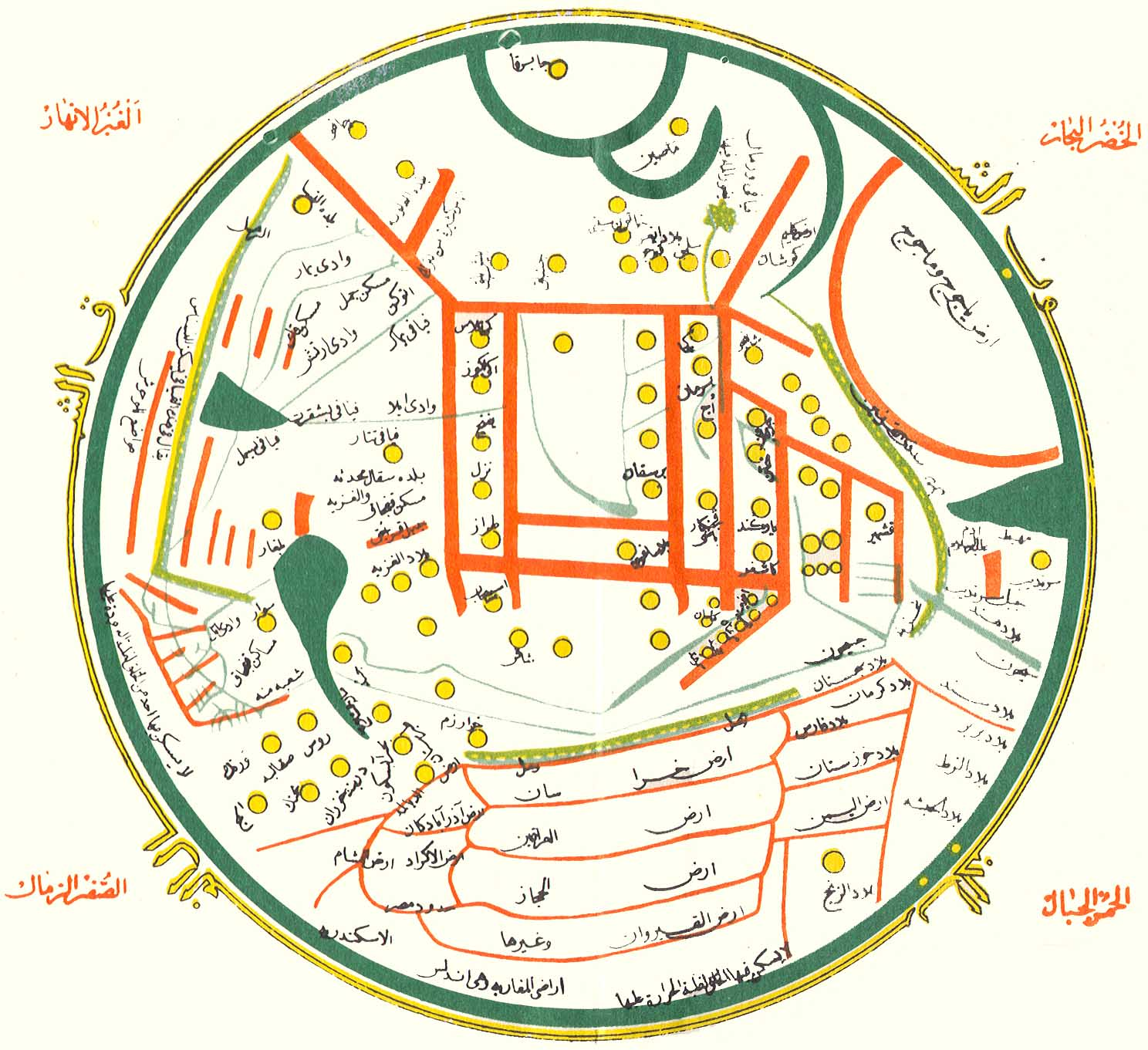 Map from Mahmud al-Kashgari's Diwan (11th century).